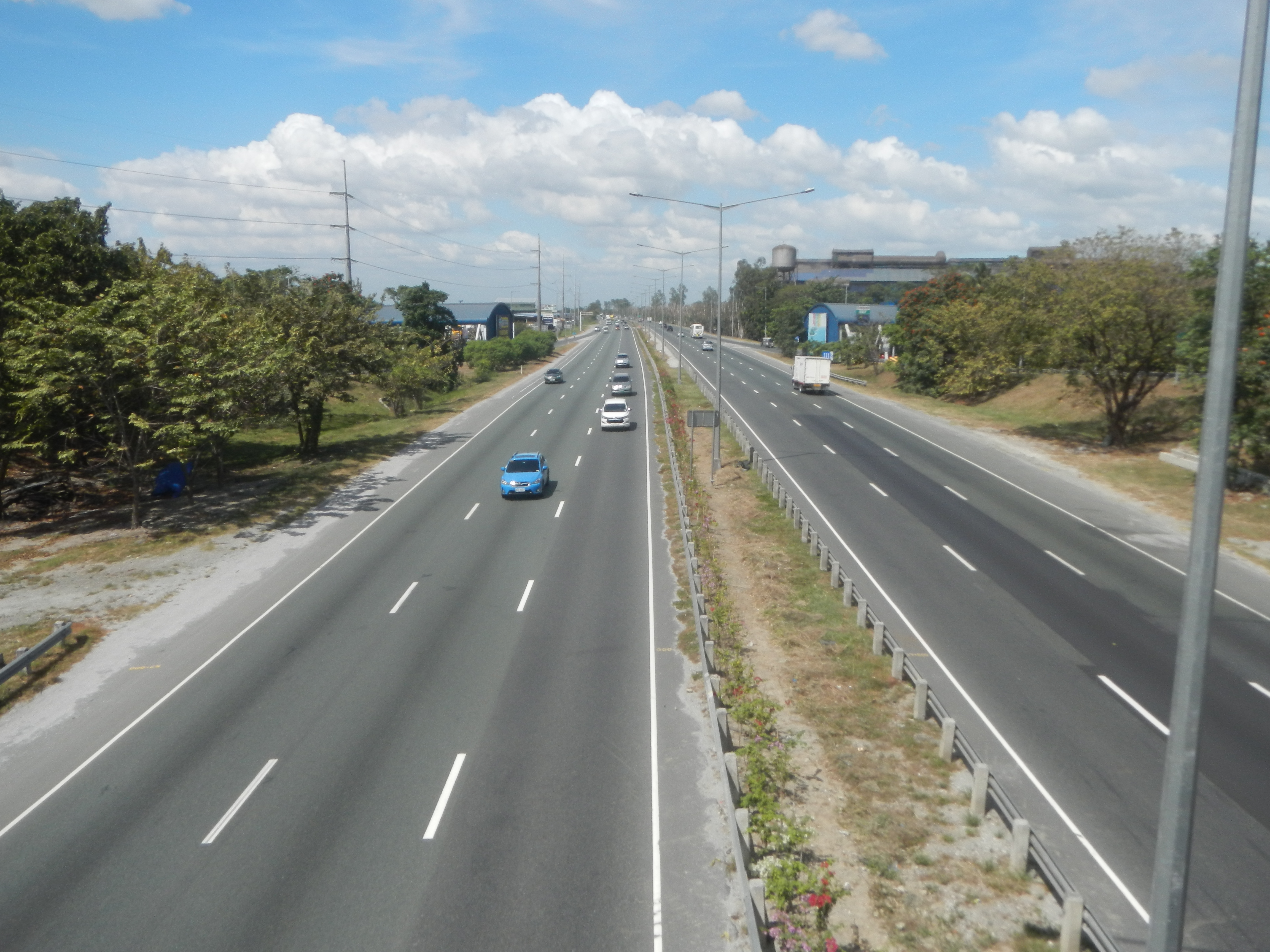 North Luzon Expressway scenery (Pulilan, Bulacan and San Simon, Pampanga to City of San Fernando sections) Sta. 56+865 San Simon Exit (Diamond interchange, North Luzon Expressway, San Simon, Pampanga) Diamond interchange North Luzon Expressway Barangay Santa Monica, San Simon, Pampanga NLEX - San Simon Exit (Santa Monica), interconnecting with the San Fernando Exit Folded Diamond with roundabouts (Northbound) Diamond with roundabouts (Southbound) a.k.a. 4-ramp partial cloverleaf with Roundabouts Partialcloverleaf interchange Diamond interchange to Angeles Exit (Note: Judge Florentino Floro, the owner, to repeat, Donor Florentino Floro of all these photos hereby donate gratuitously, freely and unconditionally all these photos to and for Wikimedia Commons, exclusively, for public use of the public domain, and again without any condition whatsoever).